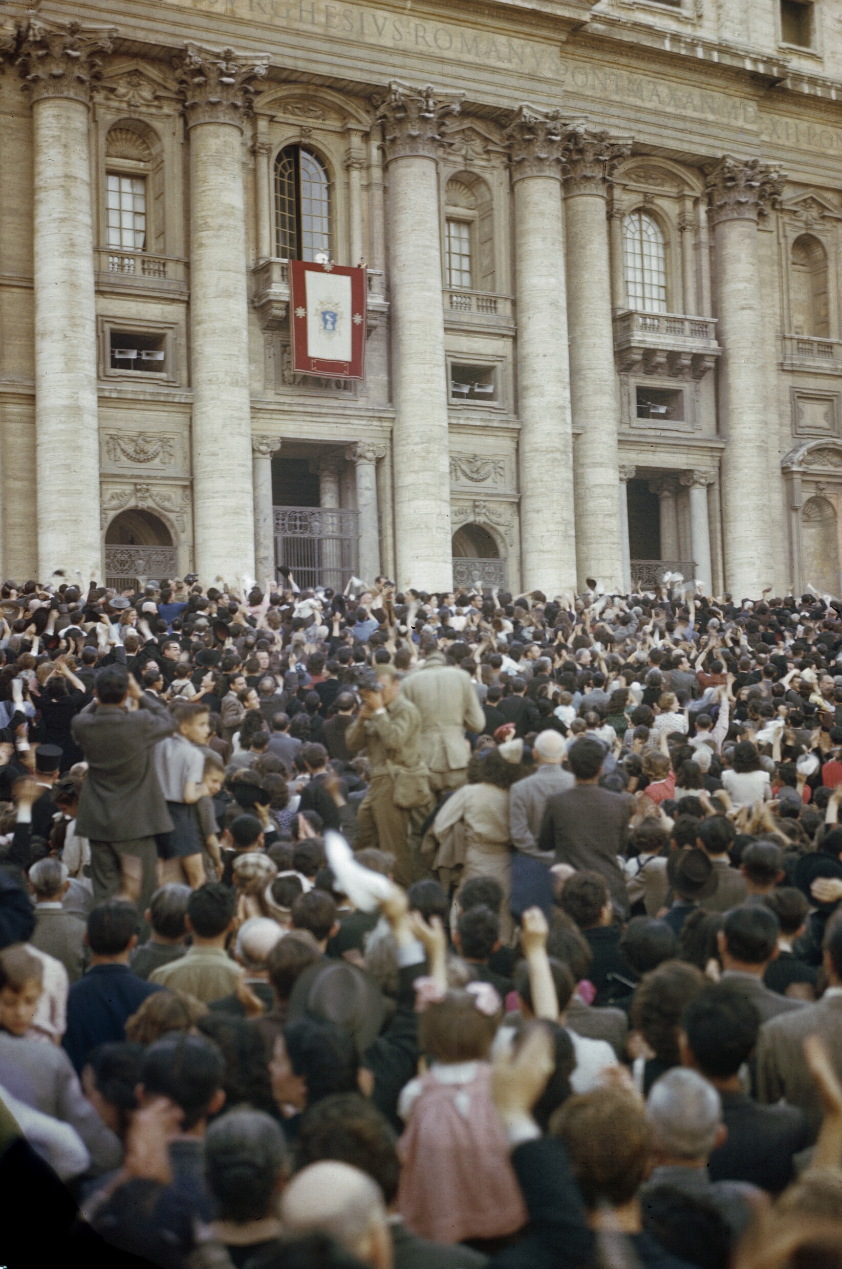 Entry of Allied Troops Into Rome, 5 June 1944 Pope Pius XII addressing the crowd in St Peter's Square, Rome, from the balcony of St Peter's Cathedral at 6 o'clock in the evening.